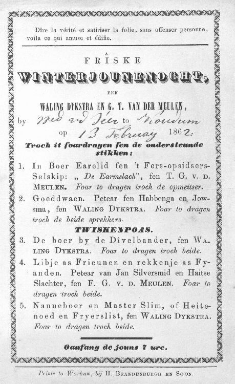 Program of a "Frîske Winterjounenocht" (Frisian winterevening enjoyment) with Waling Dykstra and G. T. van der Meulen